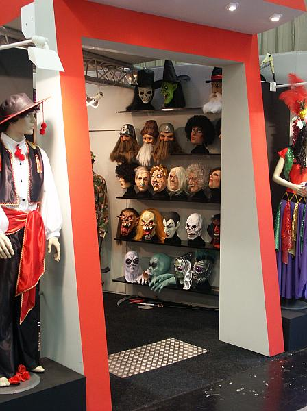 Toy Fair in Nuremberg